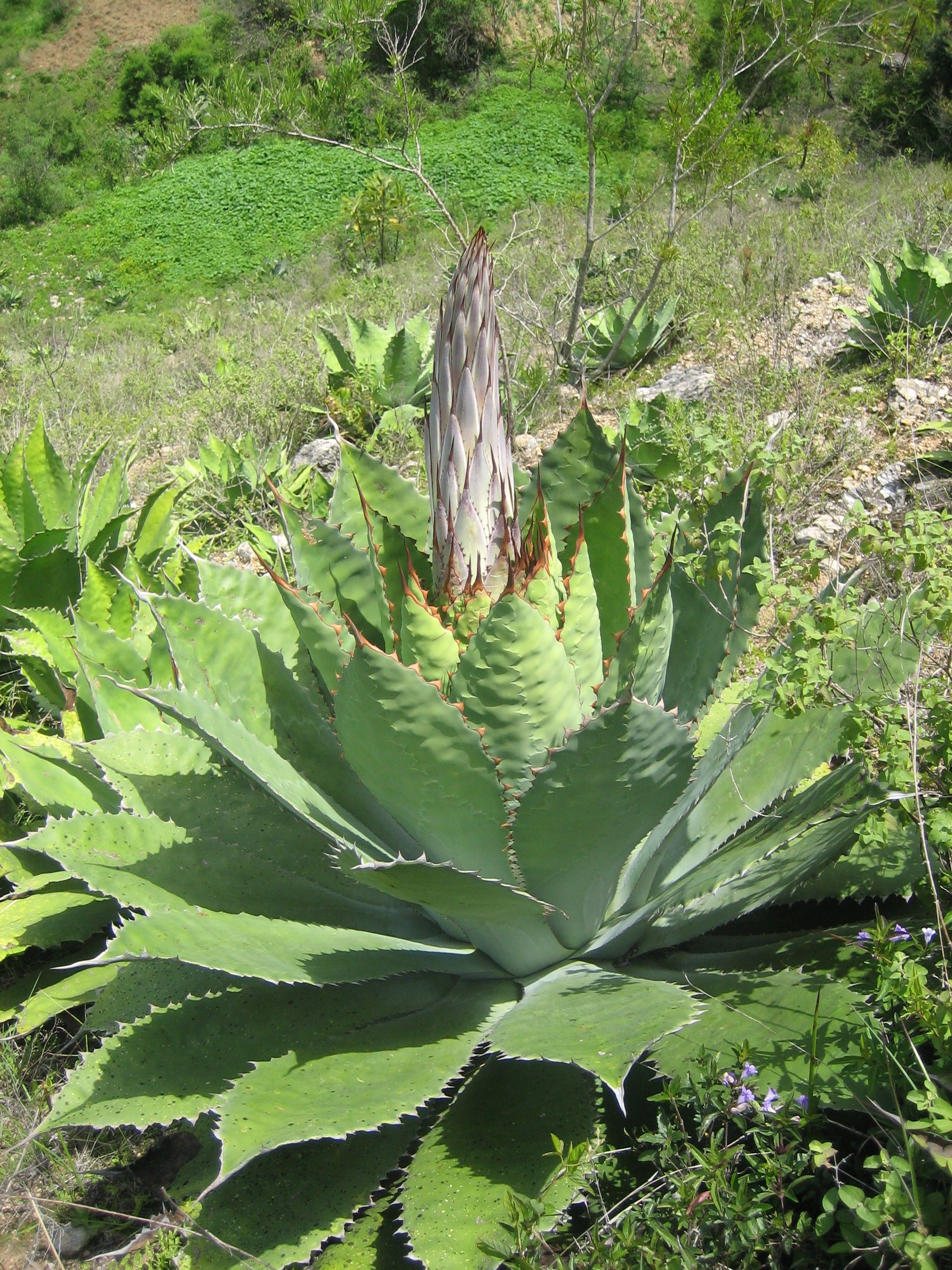 This is a mature Agave cupreata plant with the inflorescence stalk beginning to develop.